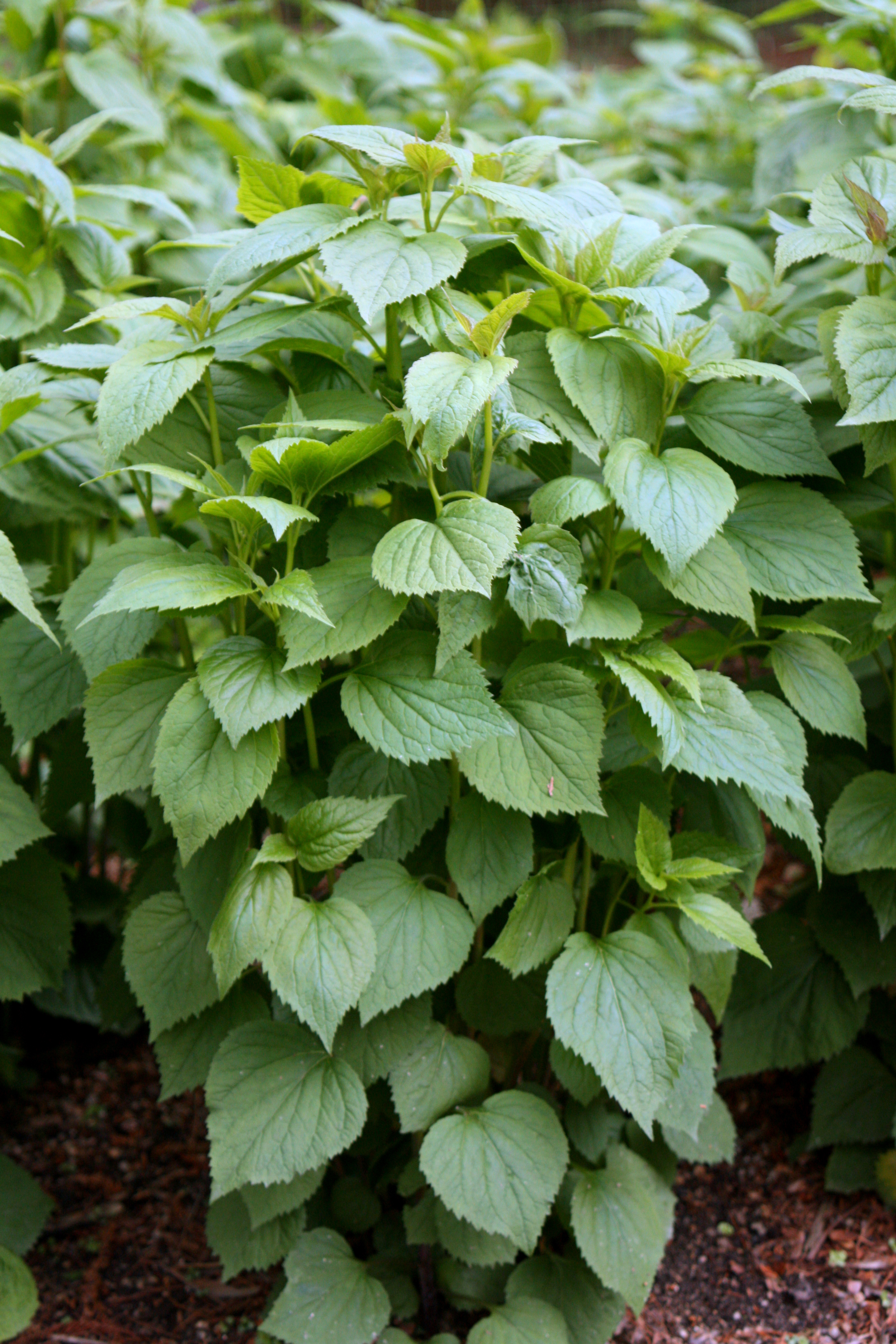 Adenophora remotiflora in Seoul, Korea